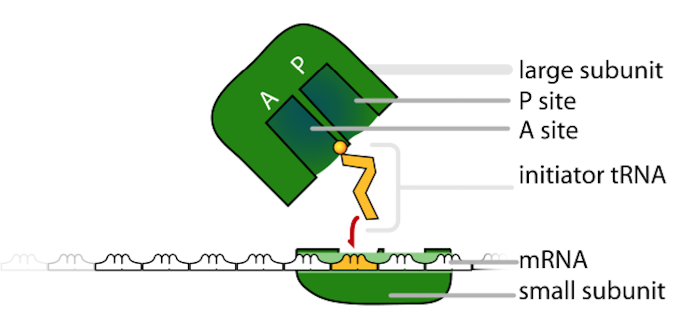 This is a diagram of a disassembled ribosome useful for showing the ribosomal RNA subunits and A and P sites of the ribosome